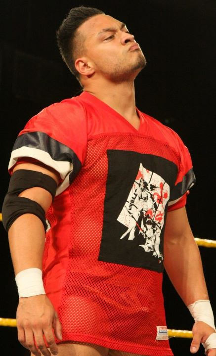 Professional Wrestler / Actor